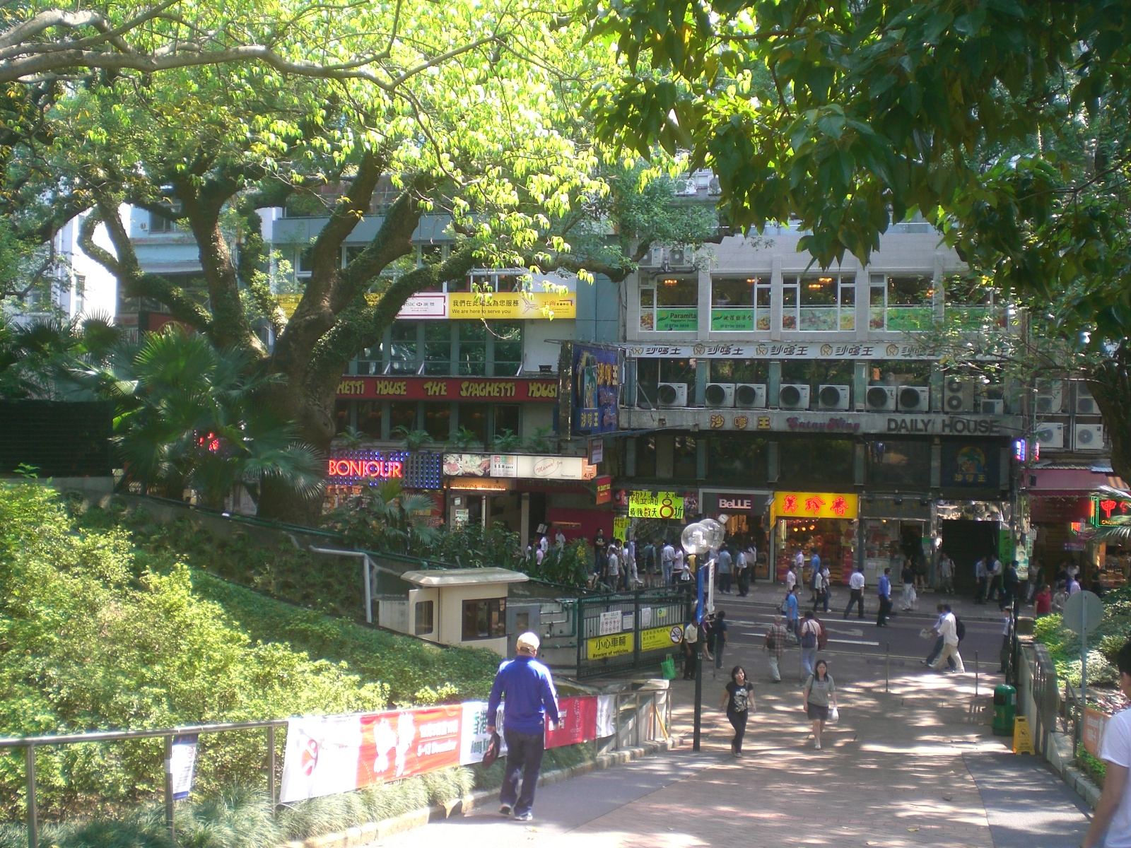 香港zh:尖沙咀 九龍公園出 海防道